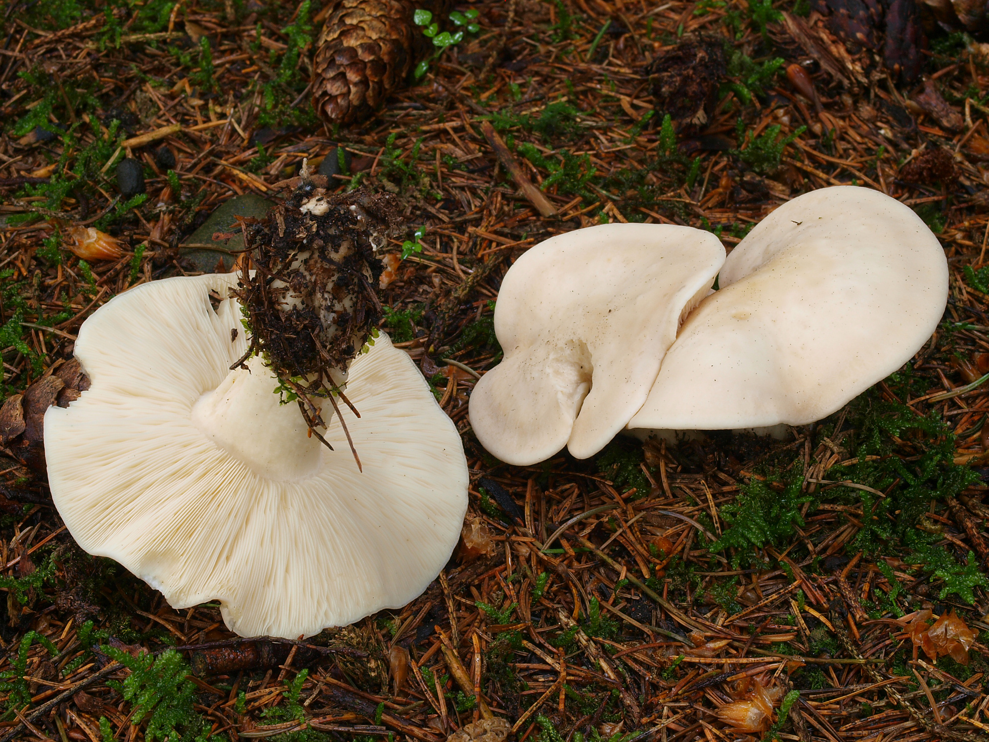 St. George's Mushroom (Calocybe gambosa)